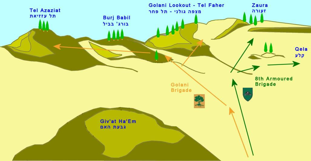 Former Syrian positions seen from Giv'at Ha'Em: Tel Azaziat, Tel Faher, Burj Babil, Qela, Zaura. The Golani Brigade and the 8th Armoured Brigade captured the positions on 9 June 1967 and brought the constant shelling from those fortifications during 19 years finally to an end.